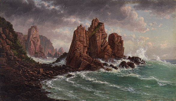 View of the granite rocks at Cape Woolamai